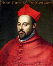 Portrait of Enrico Caetani (1550-1599)